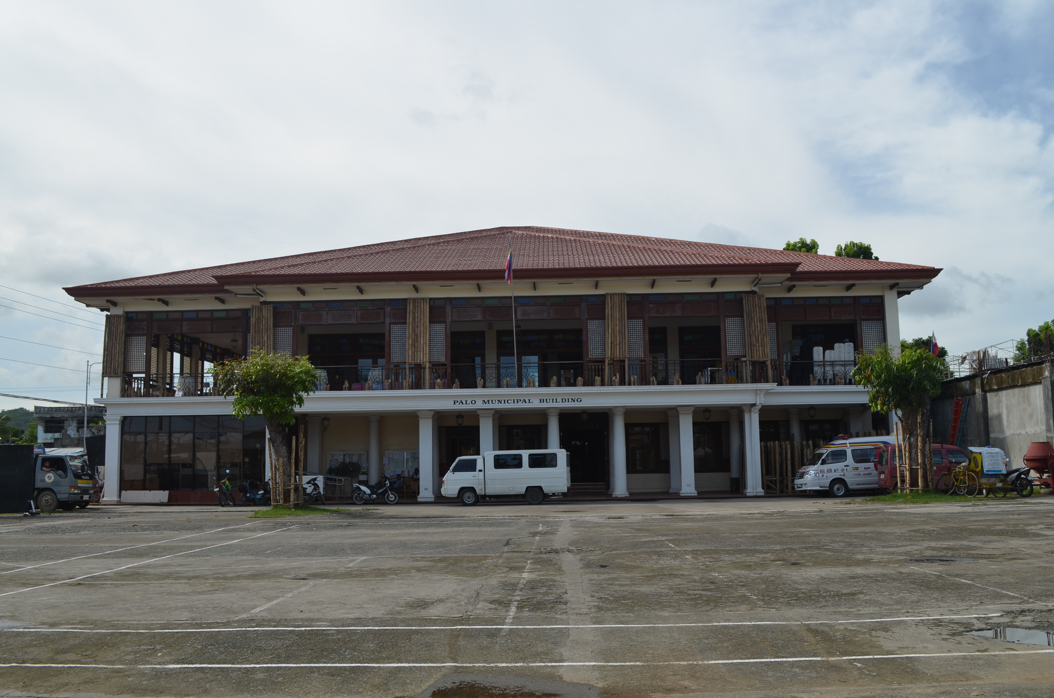 Taken during the December 2015 Sinirangan Bisaya Wikimedia Community activities in Eastern Visayas